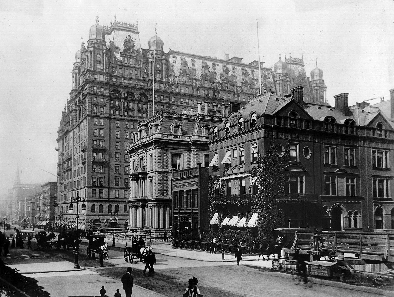 Waldorf-Astoria Hotel1899